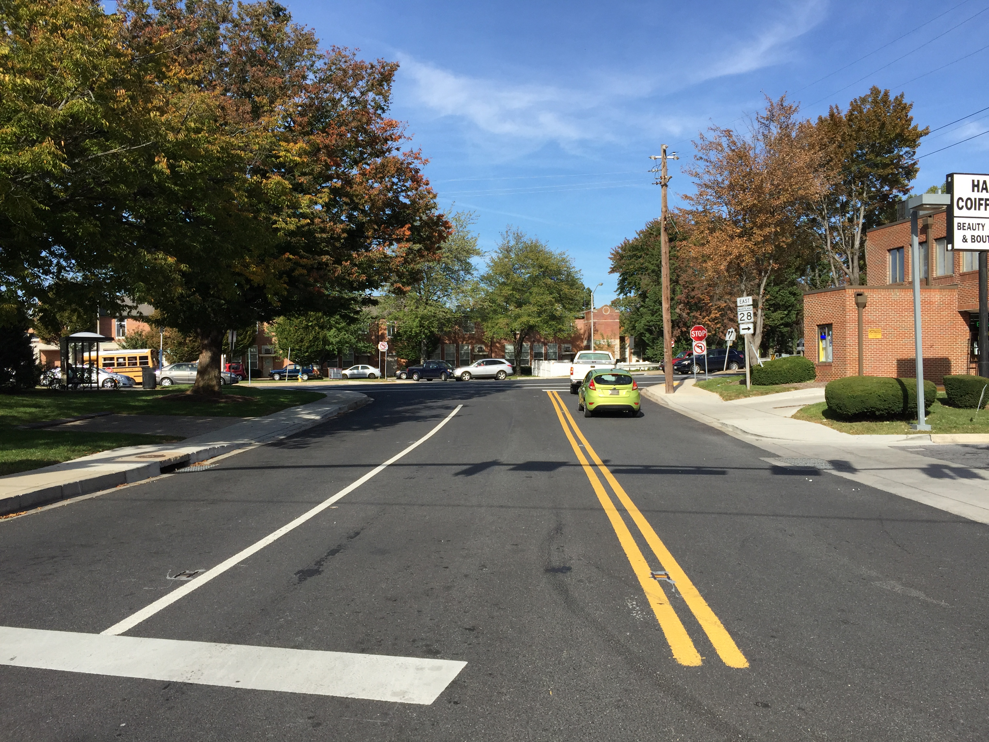 View north along Maryland State Route 660 (Dodge Street) at Maryland State Route 355 (Rockville Pike) in Rockville, Montgomery County, Maryland